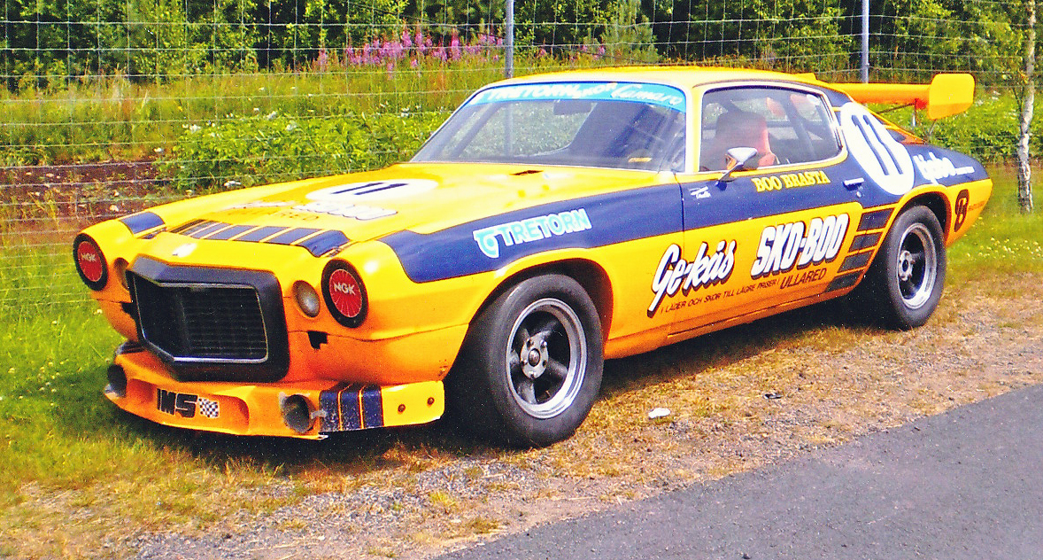 A Chevrolet Camaro, as raced by Boo "Bosse" Brasta in Sweden's Camaro Cup of the seventies and eighties. As raced in 1978 or 1979. Seen at Falkenbergs Motorbana, Sweden